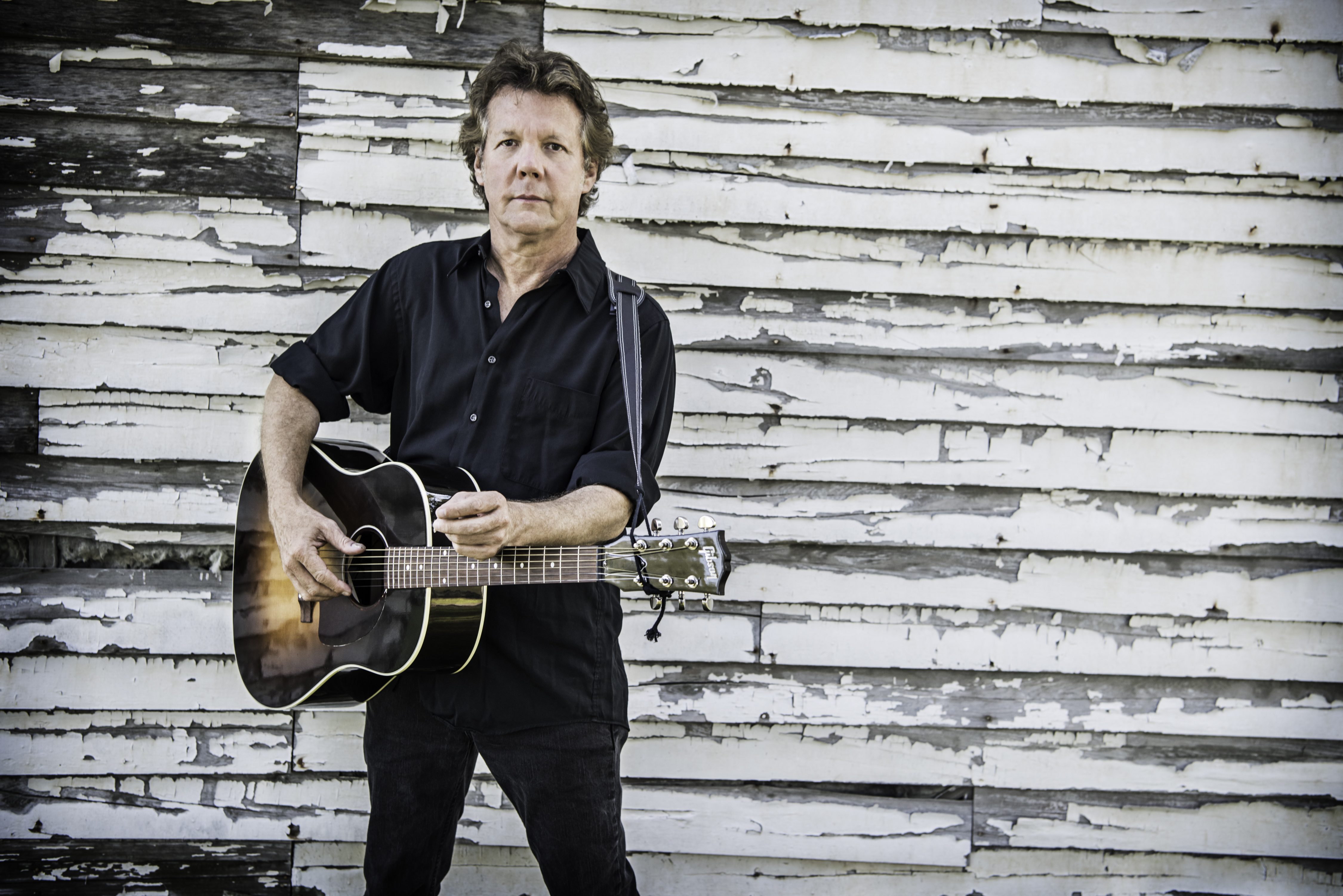 Publicity photo from 2017 of Steve Forbert